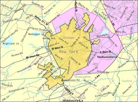 Map of Middletown New York